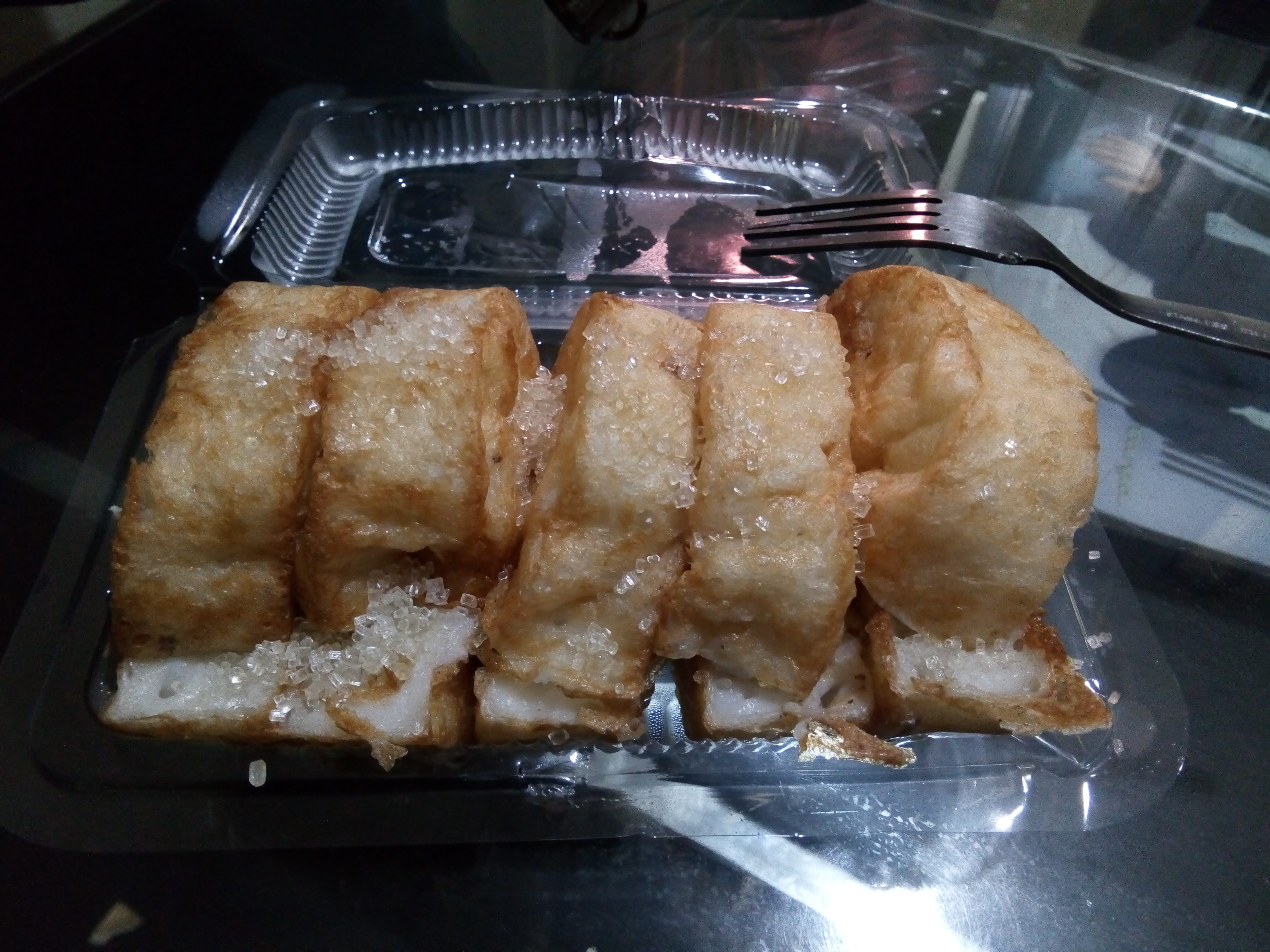 Pancong, Betawi pastry made of coconut sprinkled with sugar.